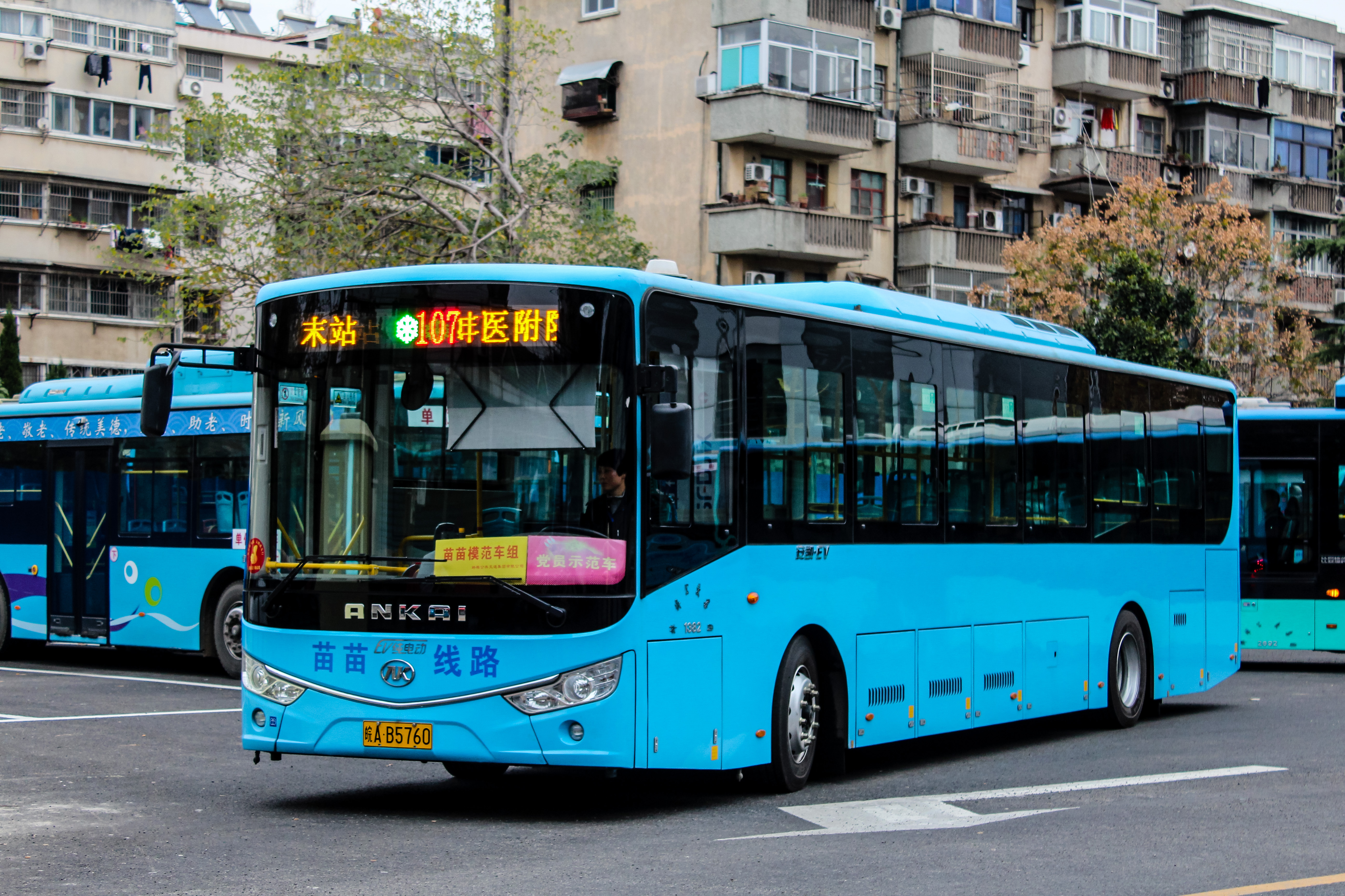 中文（中国大陆）: Bengbu Bus No.107 at 1St. Affiliated Hospital of Bengbu Medical College Station